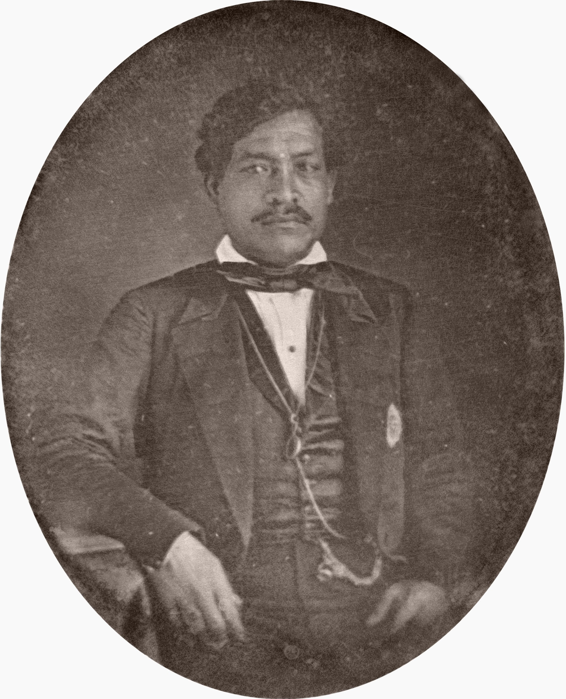 Portrait of King Kamehameha III, 1/9th plate daguerreotype, oval, c.1853, period case with paper label inscribed "His Majesty Kamahamaha 3.".